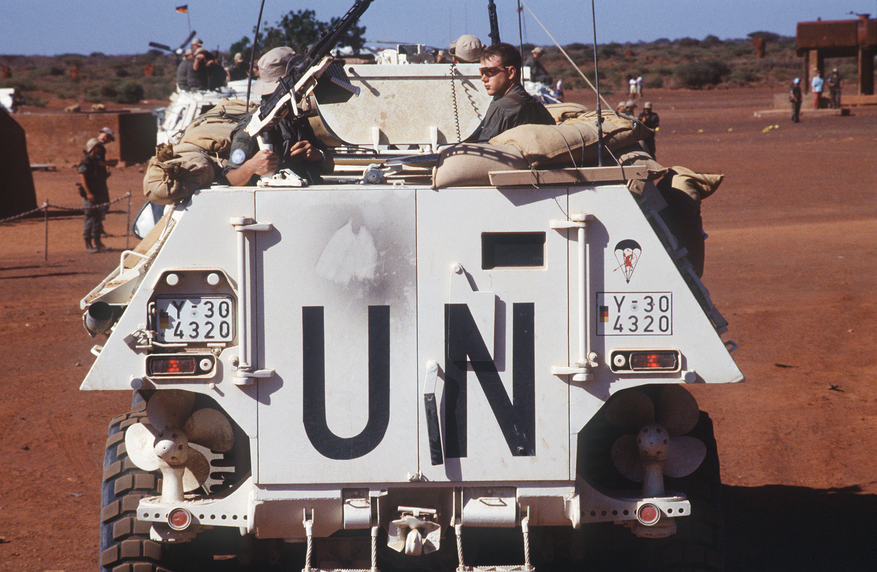 German Army soldiers from 261th Parachute Infantry Battalion onboard an armored personnel carrier (APC) Fuchs on hand for the dedication of a well which they dug for the Somalis. Germany's Defense Minister dedicated the well as part of his nations contribution to the relief effort.